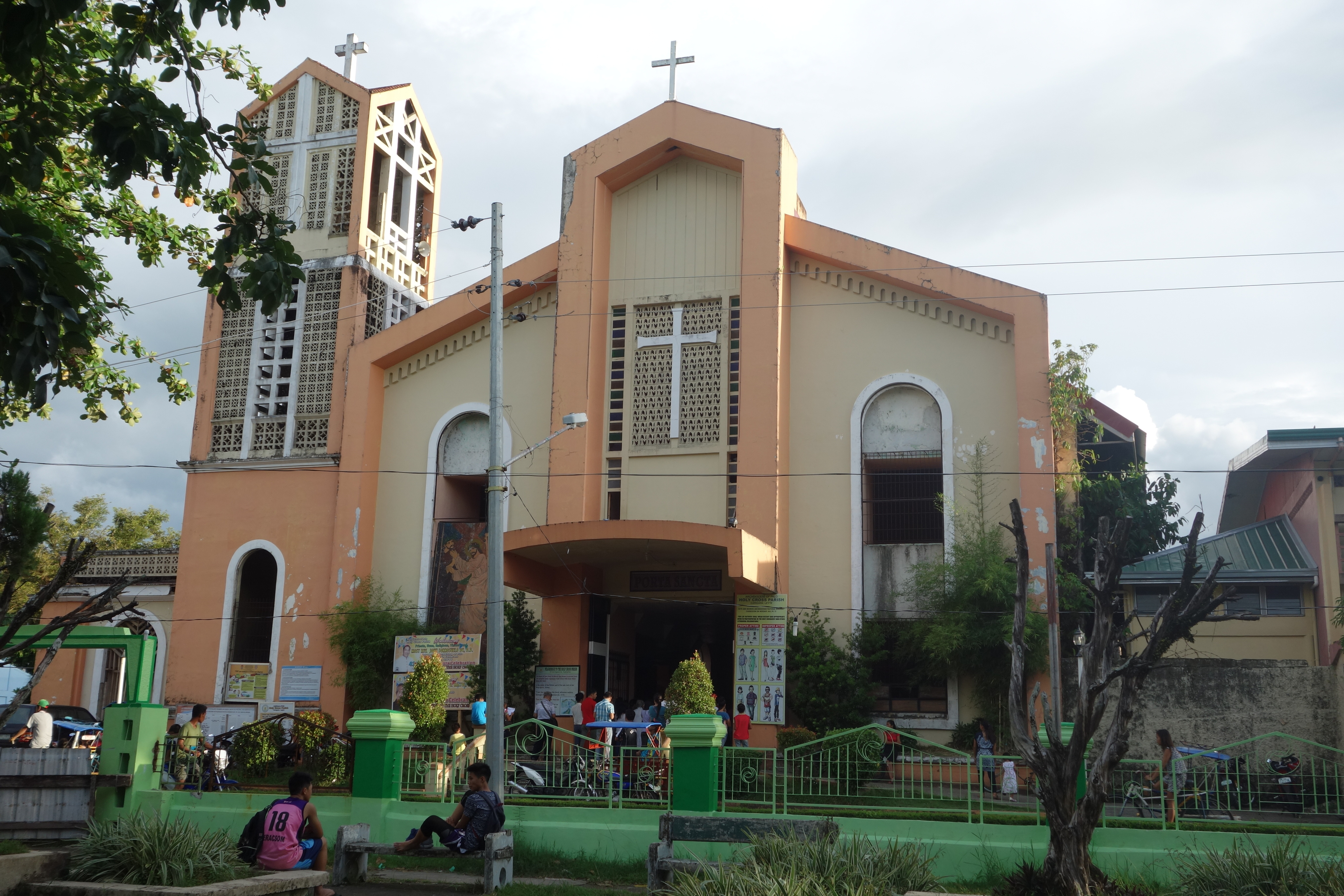 Facade of the Holy Cross Parish Church of Carigara, PH